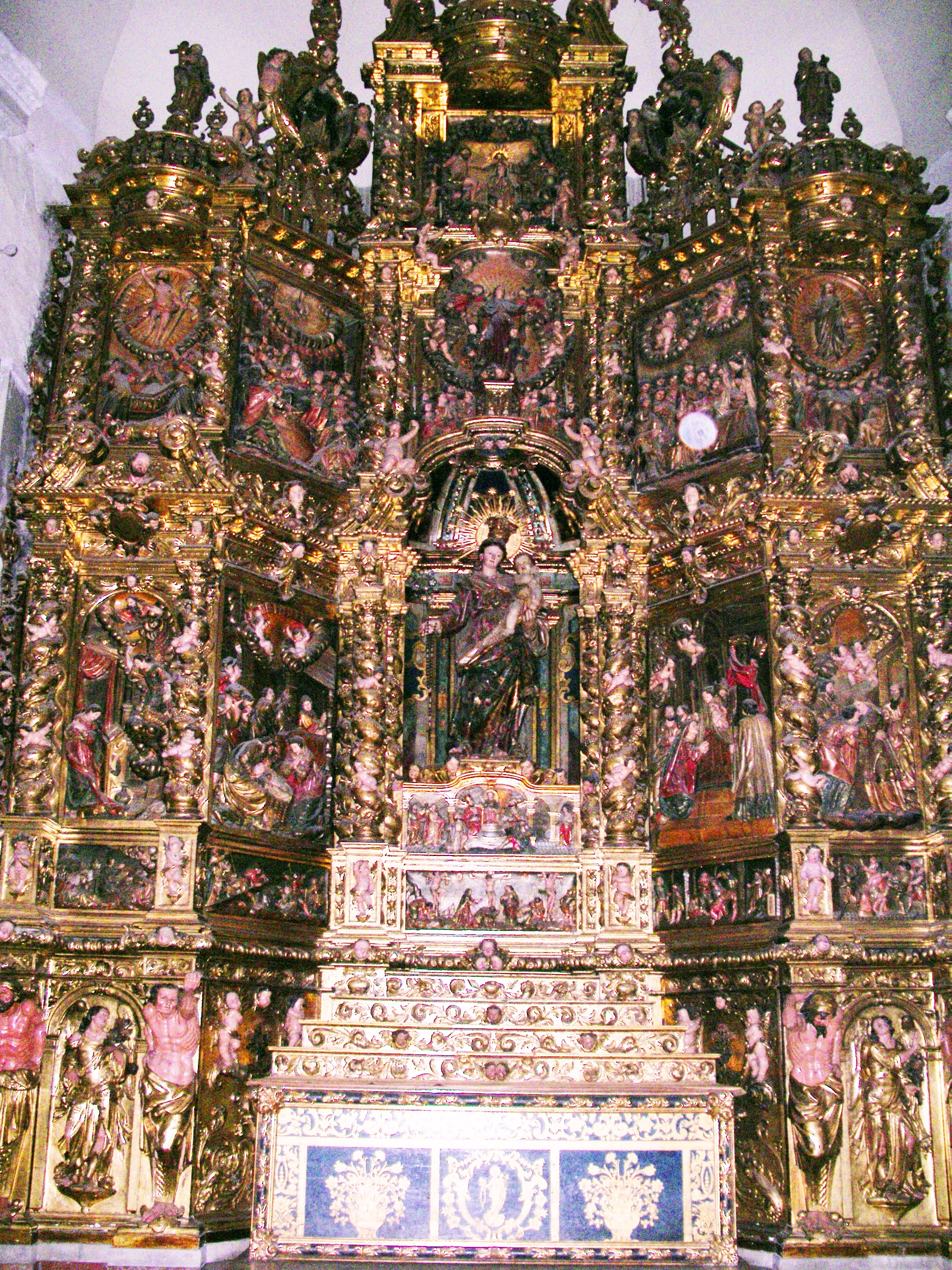 Retaule del Roser, a la Basílica de Santa Maria de Mataró